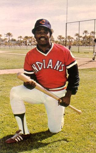 Color postcard from the 1975 Cleveland Indians postcard set of professional baseball player Leron Lee